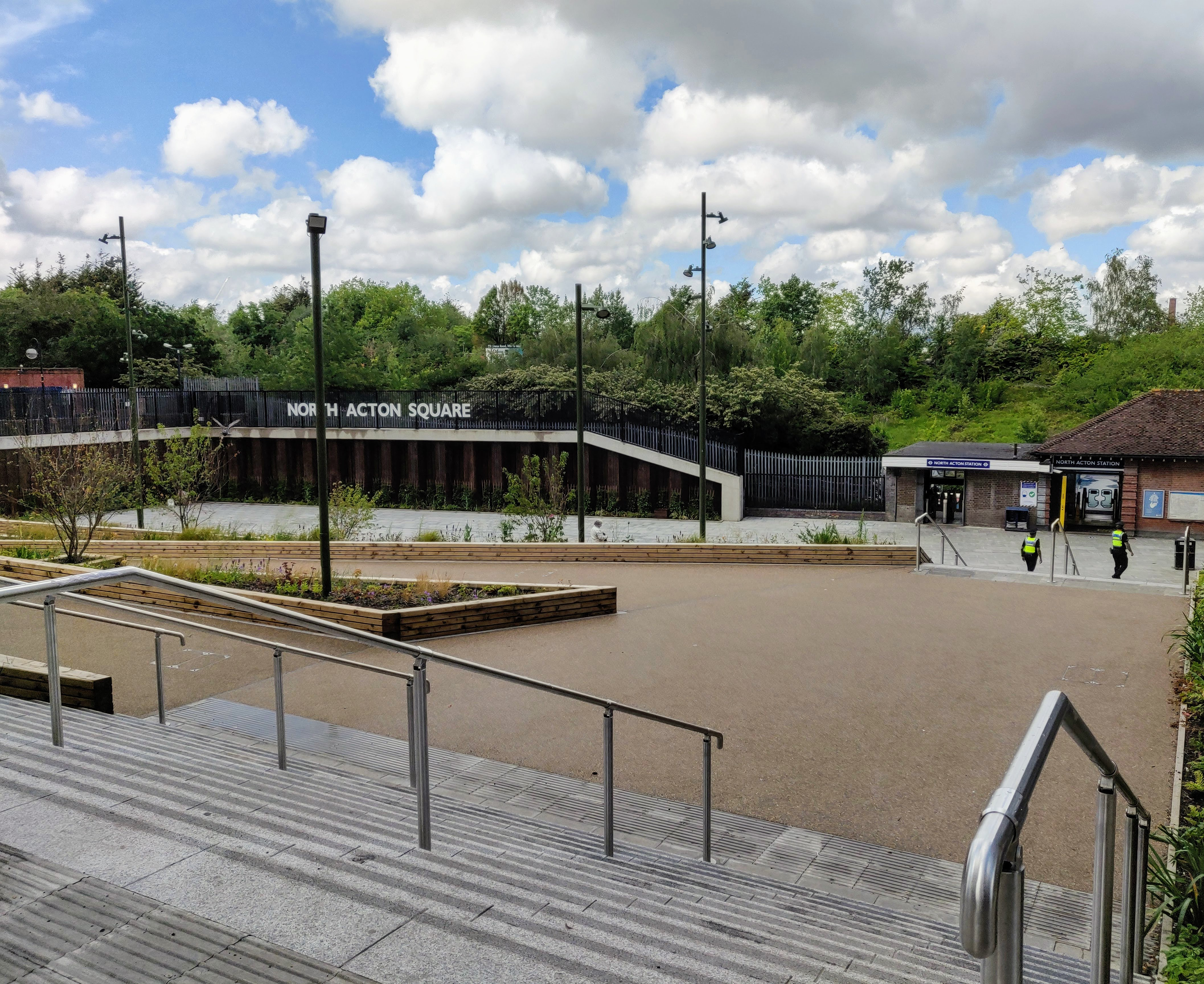 North Acton Square is a new public space opened as part of the redevelopment of the North Acton area, with many student halls. The square opens up North Acton tube station, which although a major junction and short-turn terminus for the Central line, has been hidden down paths away from the street, and with low local usage. The square instead brings it to the centre of the development, and makes it a major suburban station.